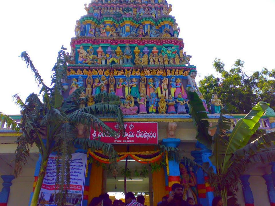 main entrance of jillelaguda venkateshwara swami temple.